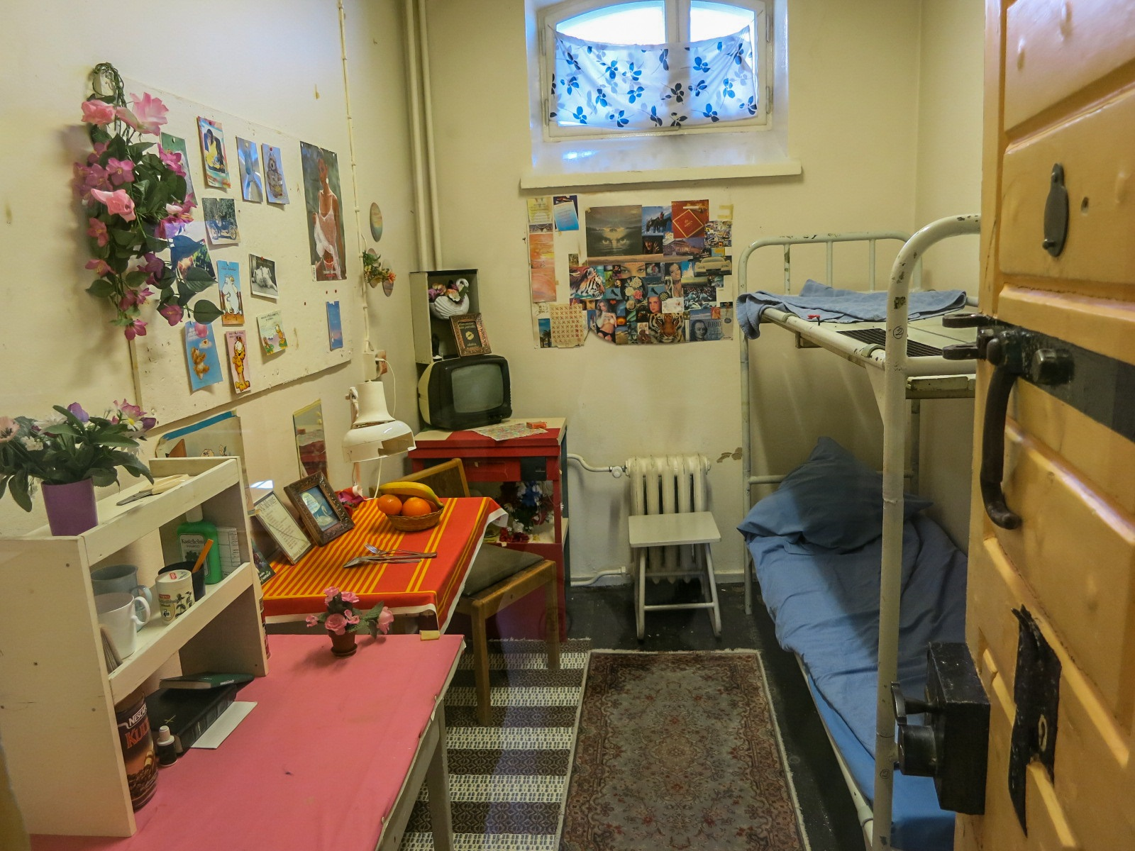 Cell from the beginning of 1990s in prison museum in Hämeenlinna (Finland). The building functioned as a prison in 1871-1993.